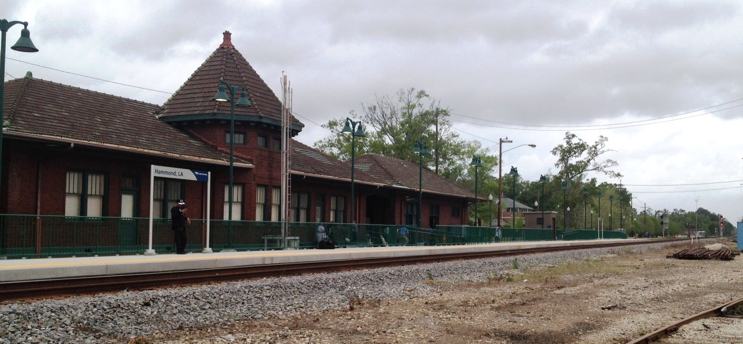 Historic railway depot in Hammond, Louisiana, with modern elevated passenger platform. View is toward the North on the Canadian National Railway.